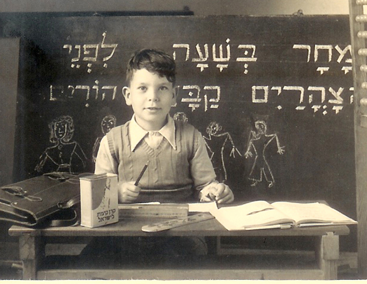 Education in Israel